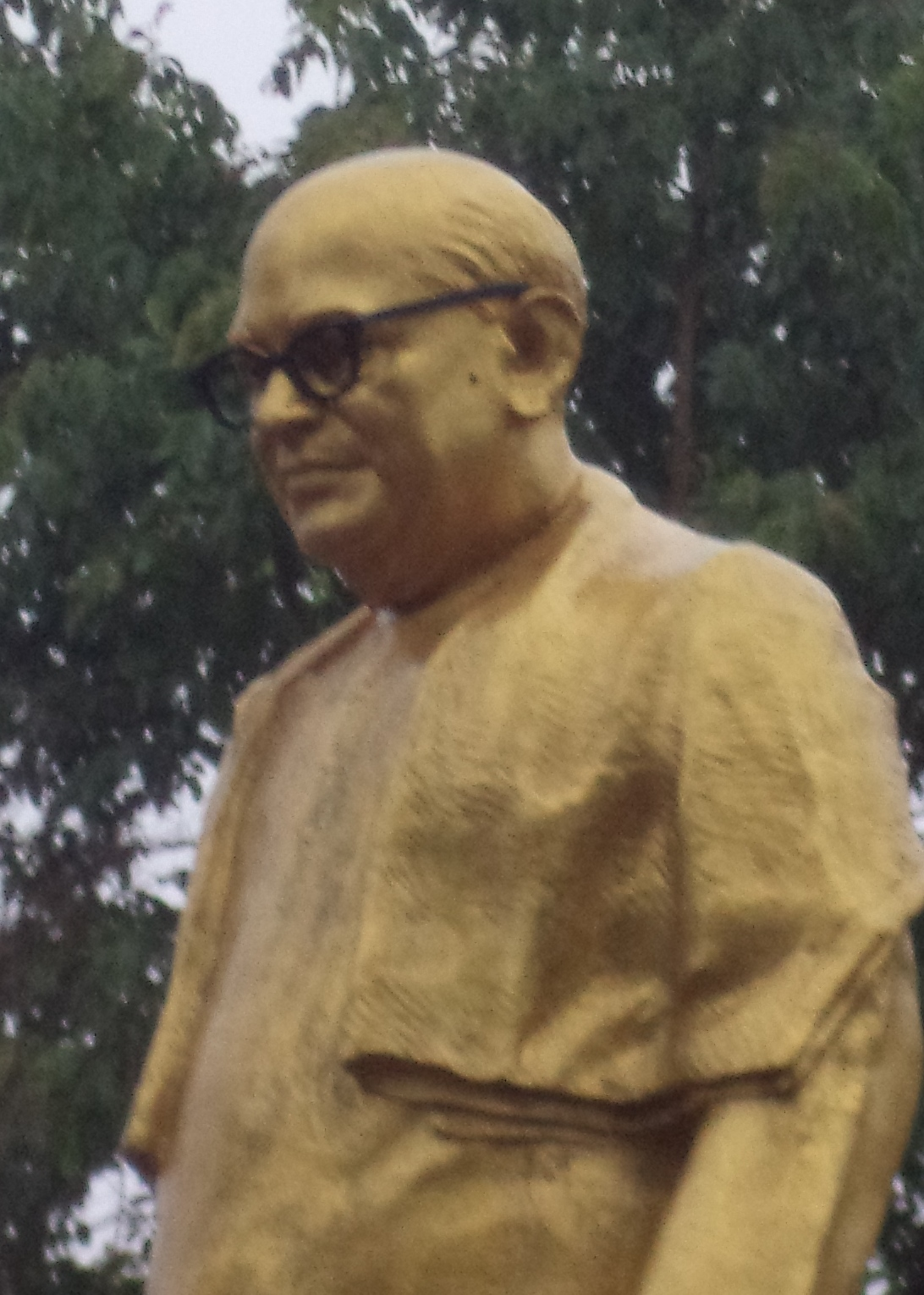 statue of Siddavvanahalli Nijalingappa, former Chief Minister of Karnataka and President of All India Congress Committee, at Davanagere.